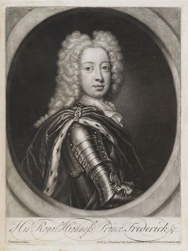 Frederick, Prince of Wales (1707-1751)